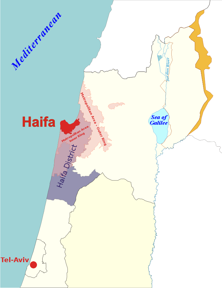 Haifa's location within the Haifa District and Israel.